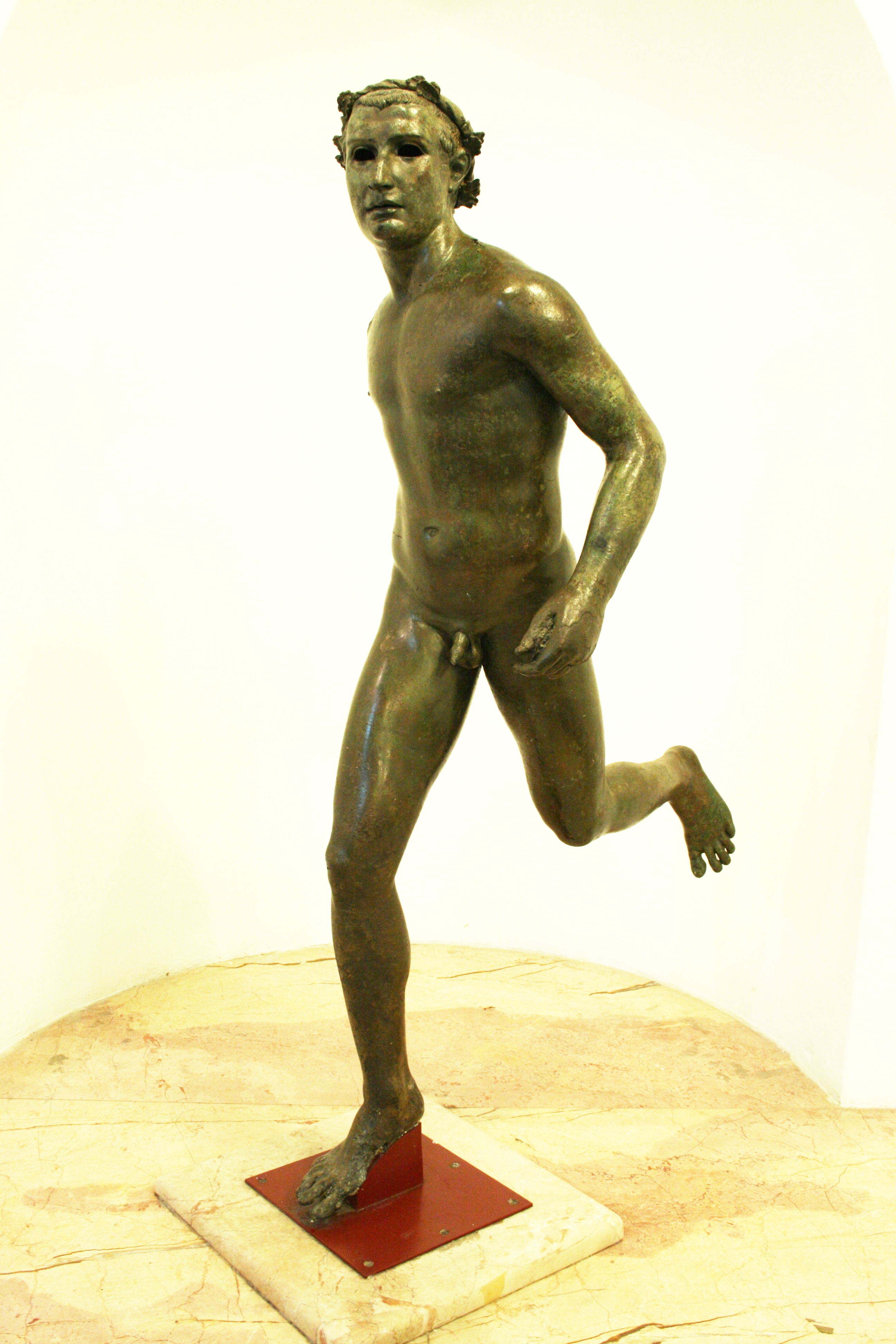 Runner (Bronze)found at Harbour of Nemrut (Kyme)Late Hellenistic Period 50-30 BC. The statue found in the open shores of the ancient city of Kyme portrays a nude athlete. The object supposed to be held in his left hand could not have been found. It is known that the winners of the Olympic Games were honoured by their statues in the Ancient Greek and Aegean world. This sculpture should describe an athlete, winner of the javelin throwing games.